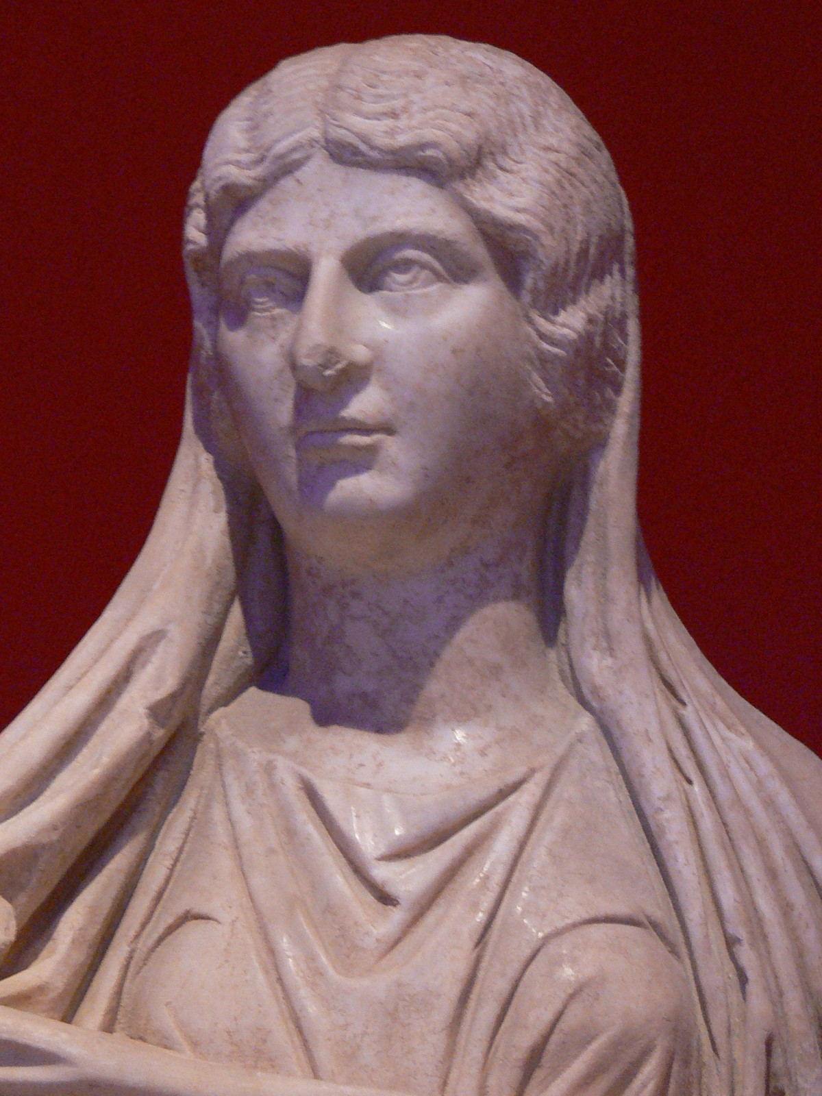 Antalya Archeological Museum. Perge collections: Statue of Iulia Soaemias ( 3rd century AD ) - detail.